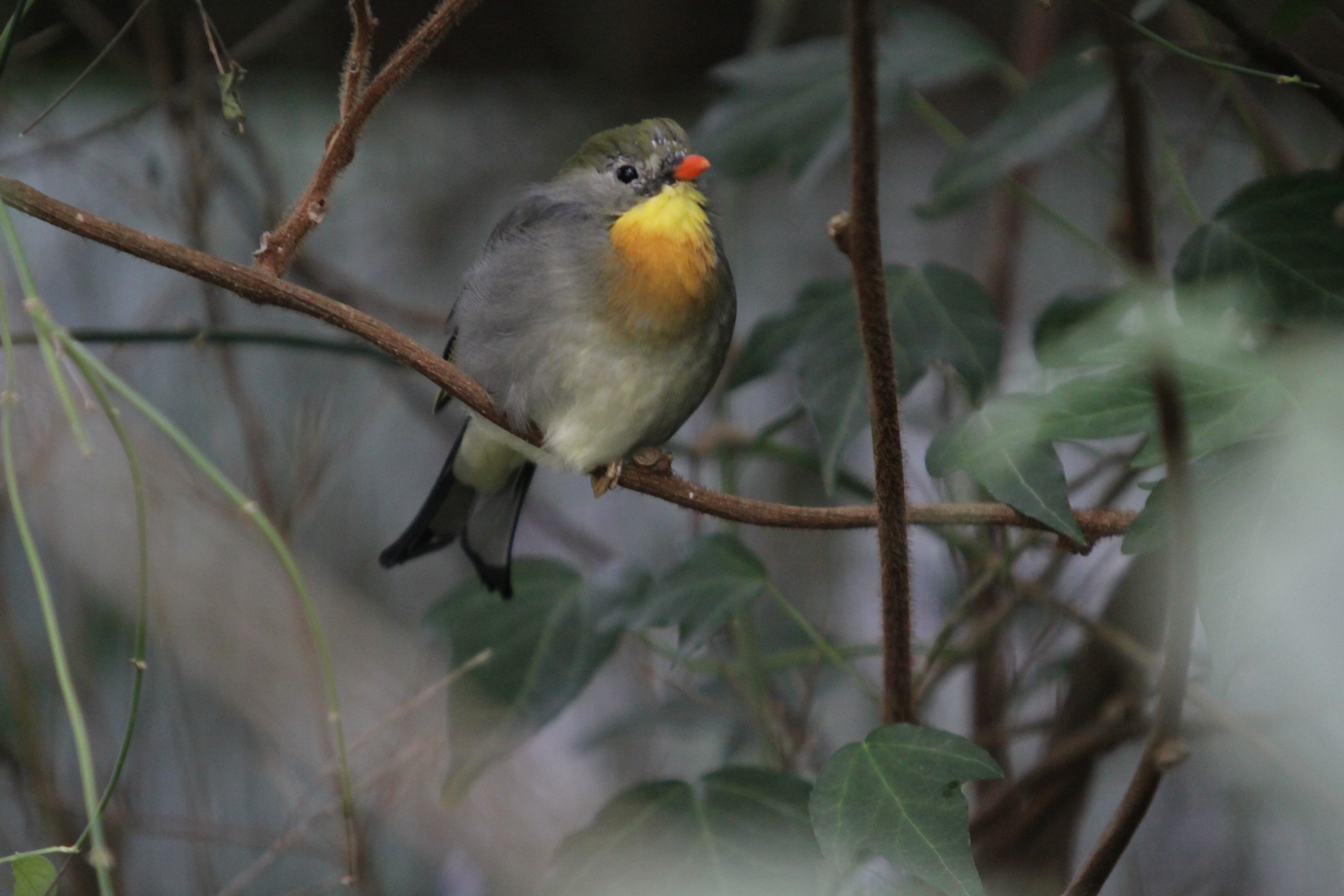 Red-billed leiothrix (Leiothrix lutea) at Durrell Wildlife Park